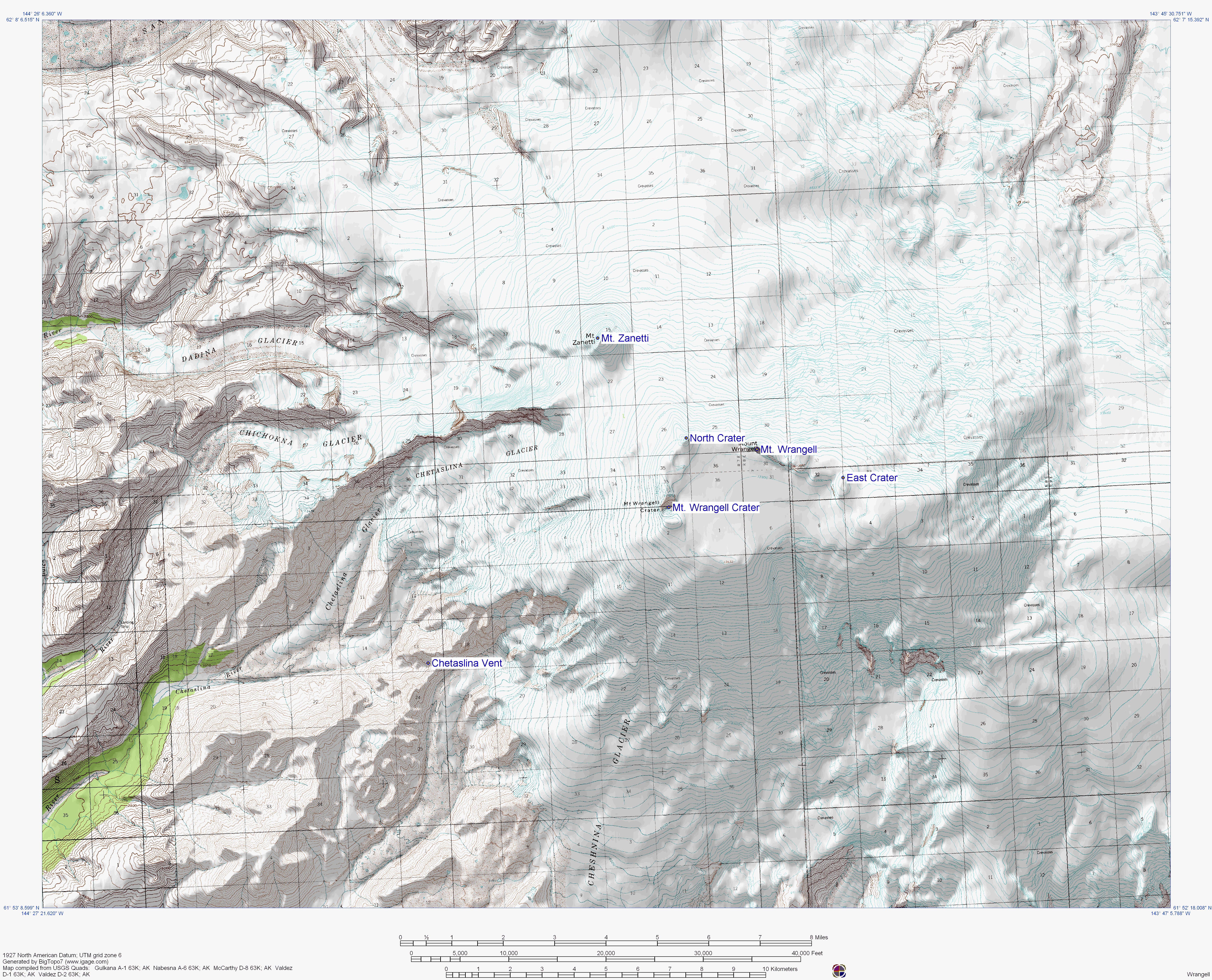 Topographic map of Mount Wrangell volcano, Alska, USA